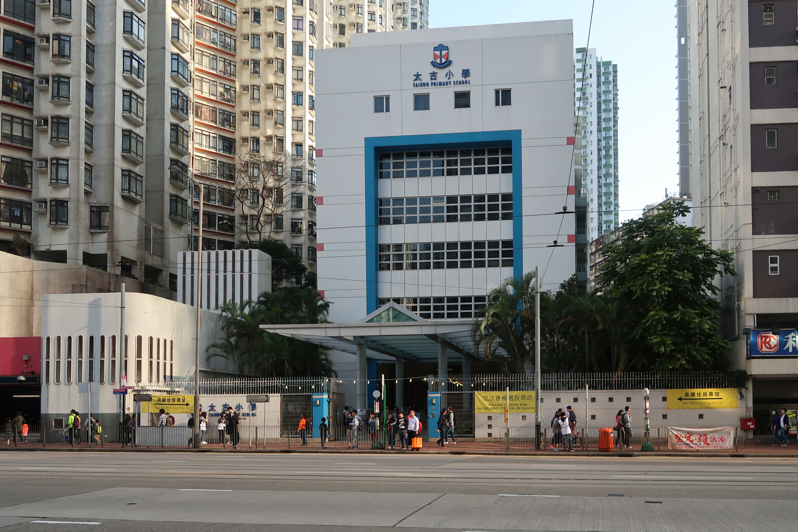 Taikoo Primary School